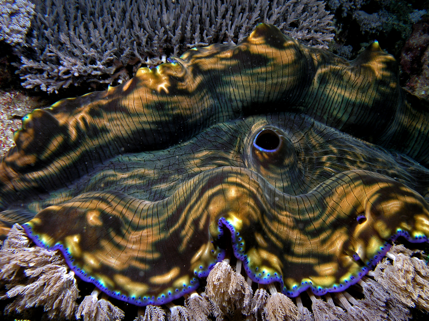 Tridacna giant clam in Komodo National Park